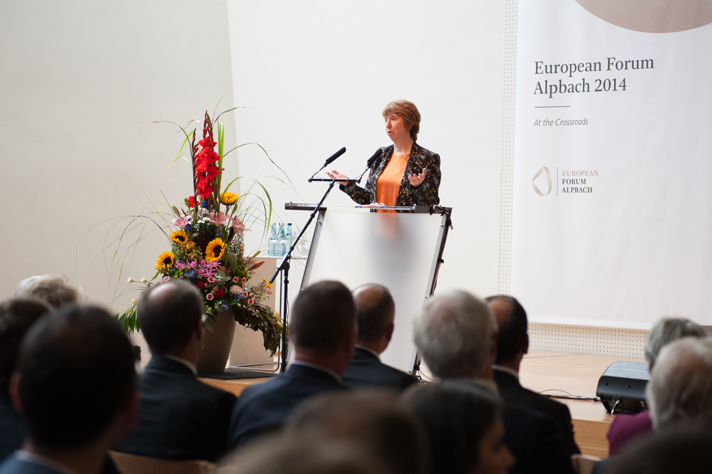 Catherine Ashton at the European Forum Alpbach 2014